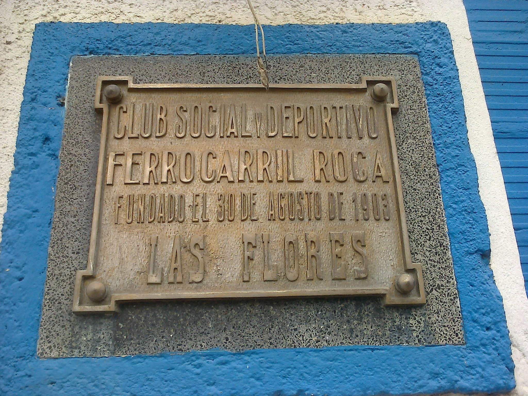 Club Ferrocarril Roca